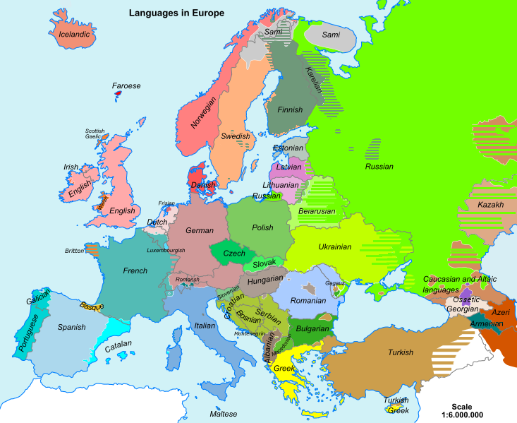 Corrected some Nordic minorities